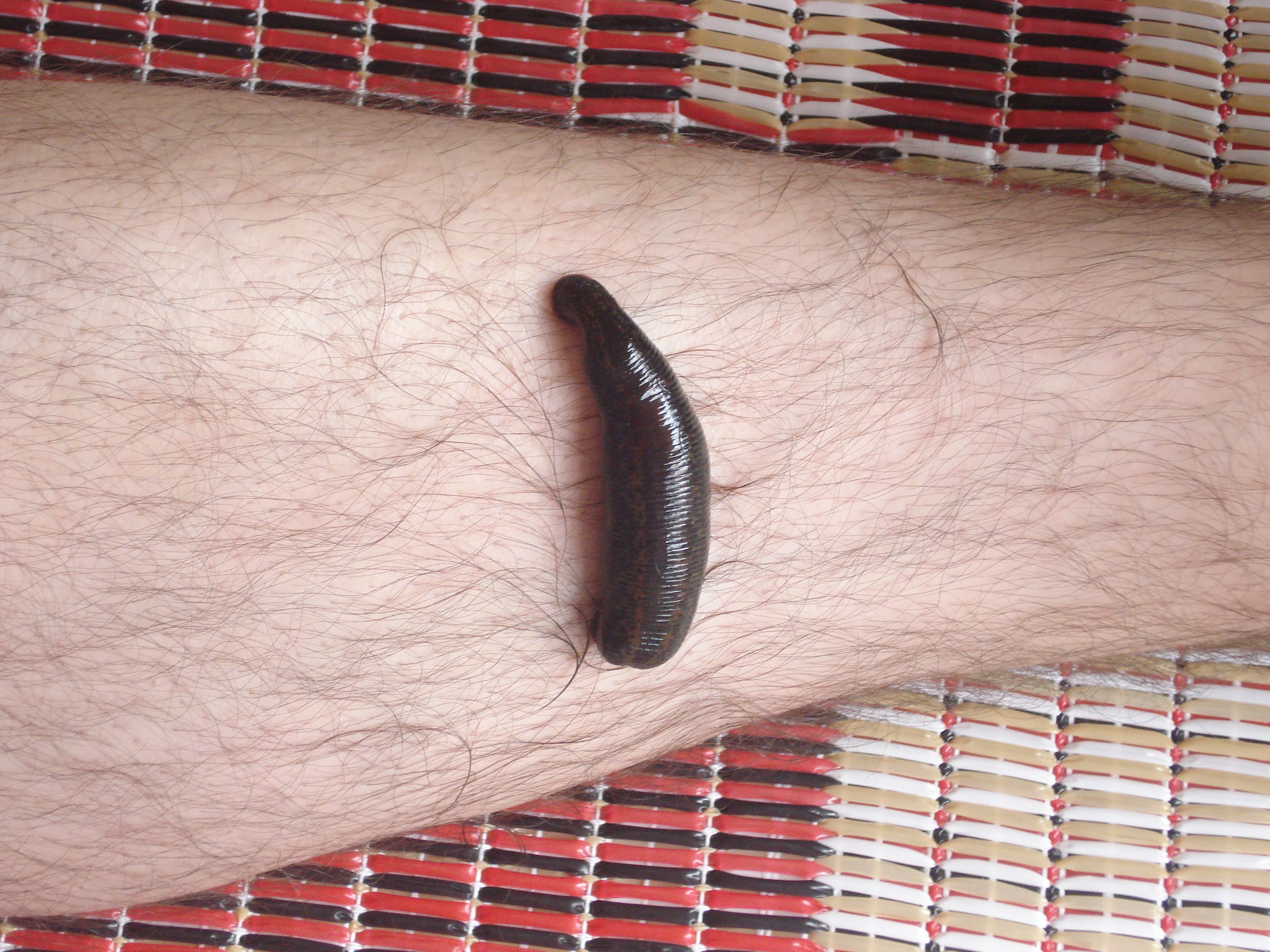 Sülük is used in alternative medicine for health of skin.